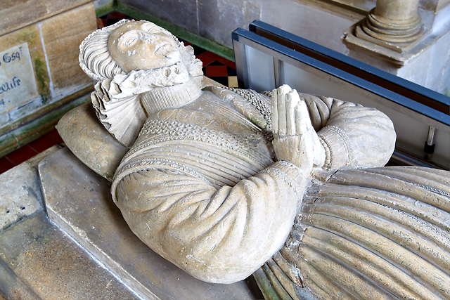 St Catherine's church, Montacute - monument to Bridget Phelips (detail)